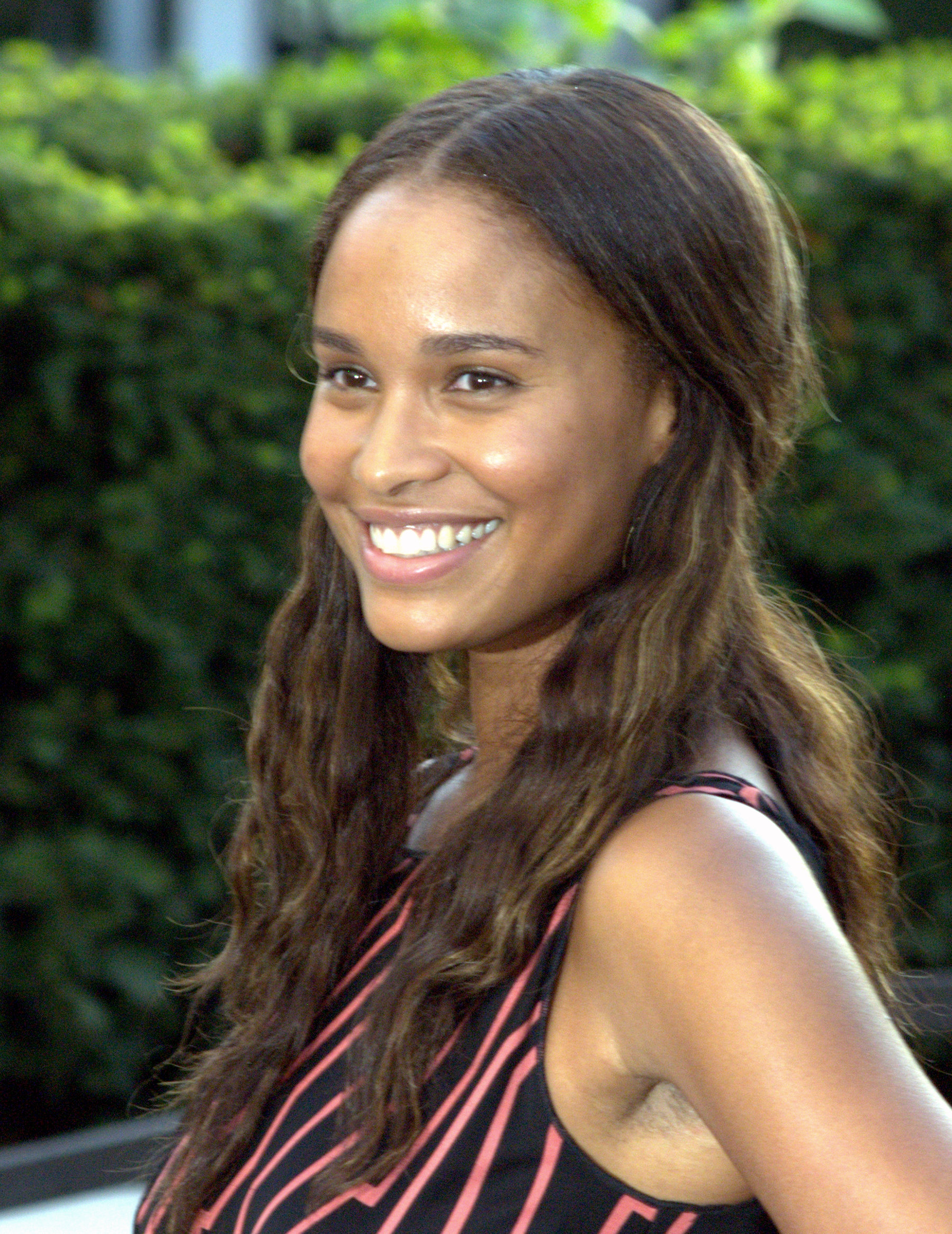 Joy Bryant at the 2009 premiere of the Metropolitan Opera in New York City. Photographer's blog post about event and photograph.